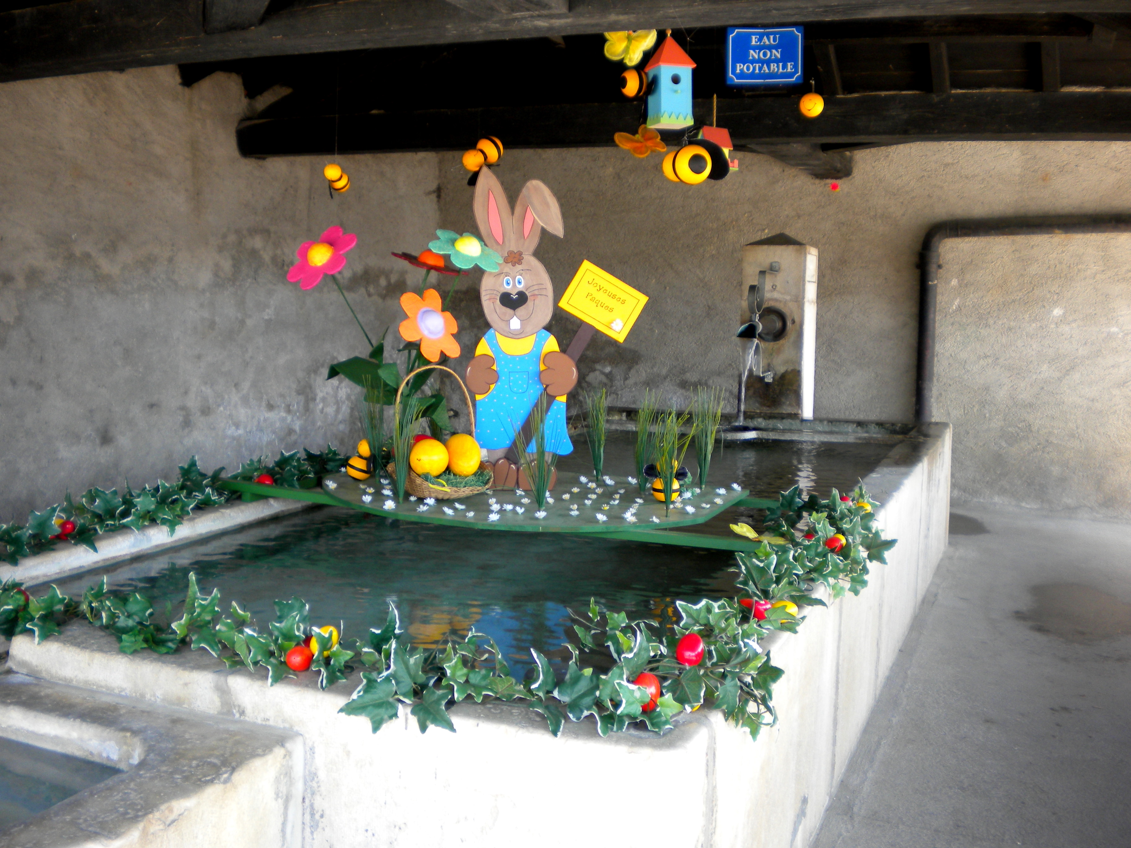 Eastern decorations around the fountain in the middle of the village of Arzier, Canton de Vaud, Switzerland. Made by pupils from the primary school of this village.